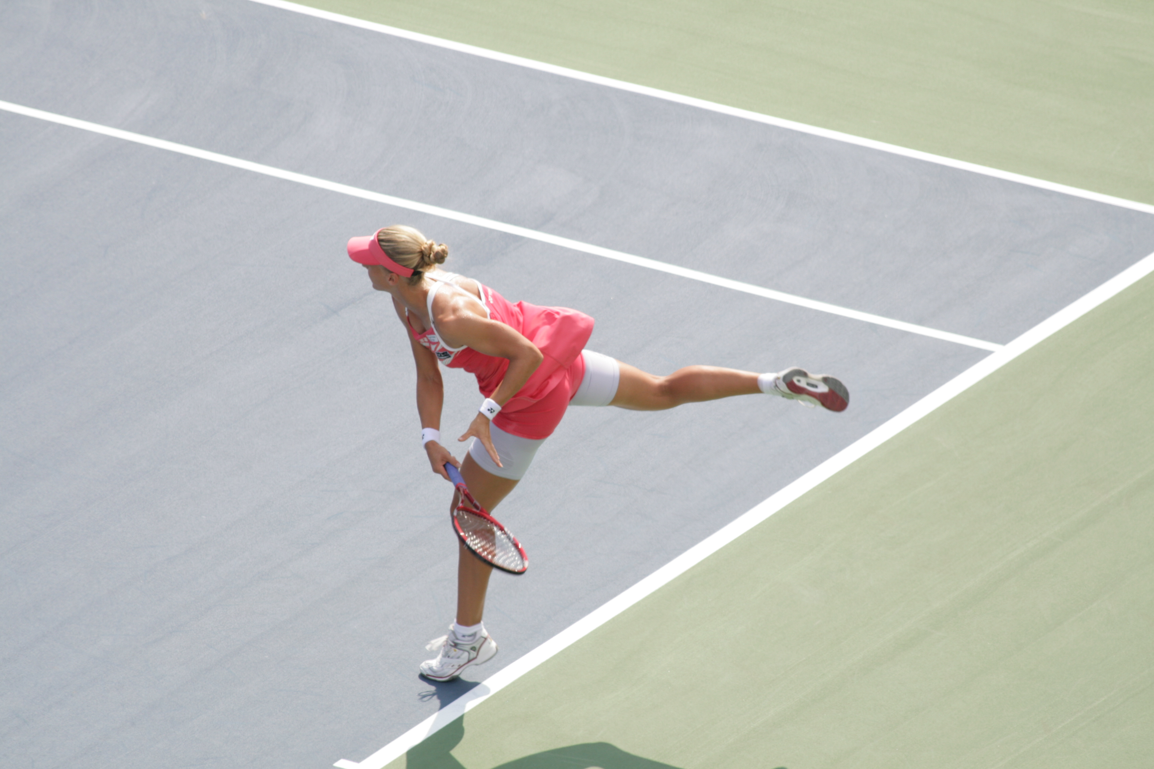 2009 Rogers Cup - Semifinal